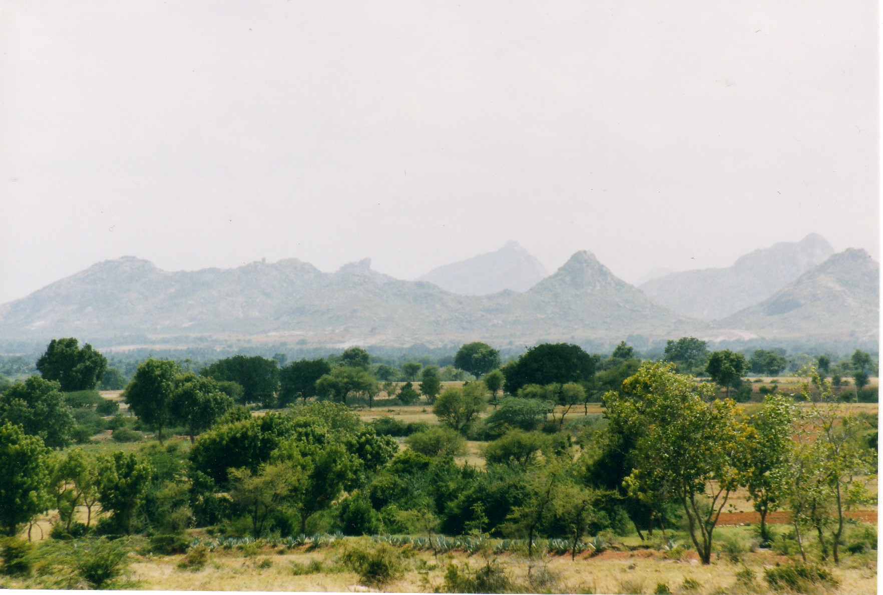 Photograph taken by self (Dineshkannambadi) in 2002